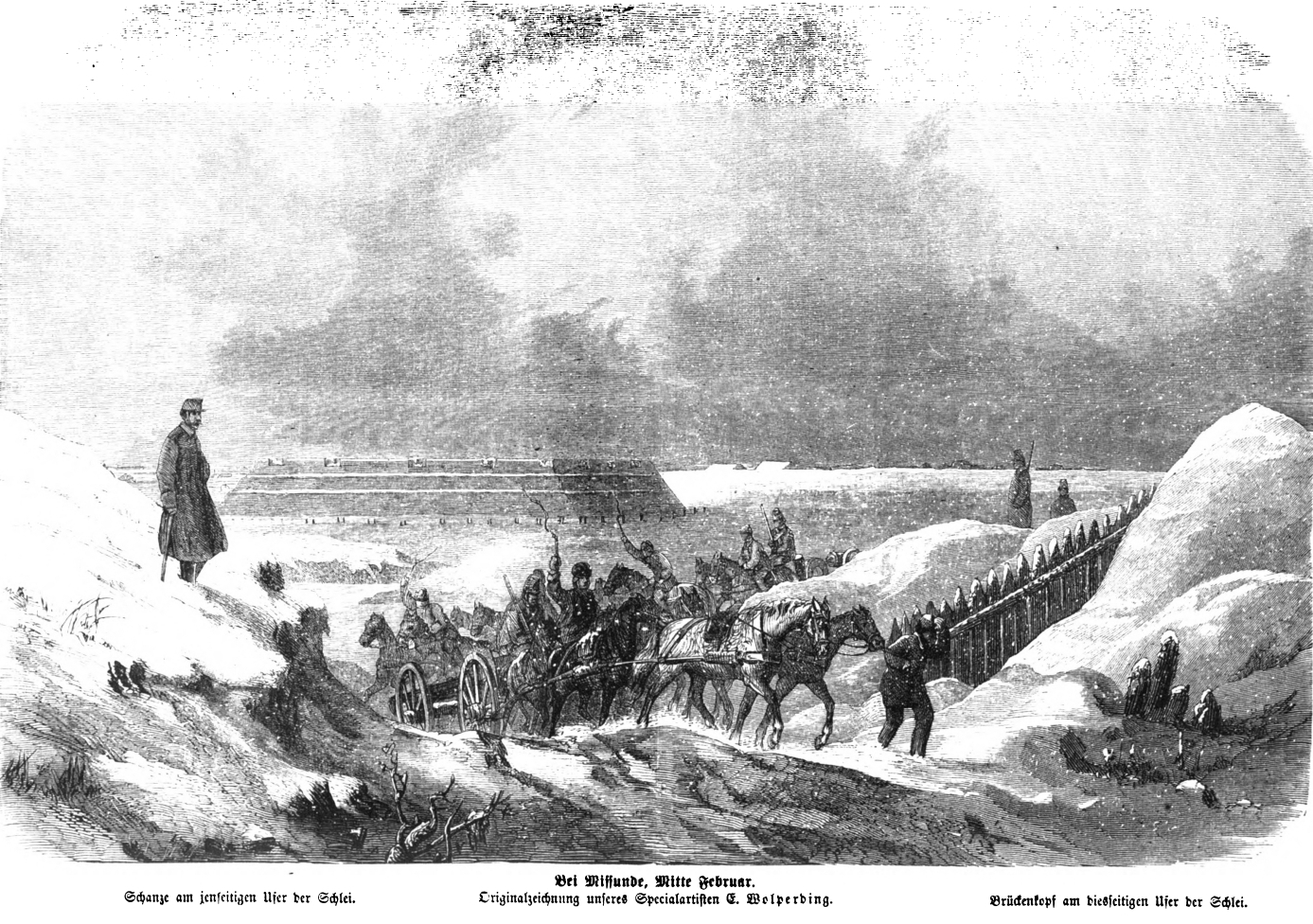 caption: "Schanze am jenseitigen Ufer der Schlei. Brückenkopf am diesseitigen Ufer der Schlei.Bei Missunde, Mitte Februar.Originalzeichnung unseres Specialartisten E. Wolperding."